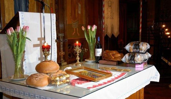 Divine Liturgy preparations at the Ukrainian Catholic Cathedral of the Holy Family in Exile, London